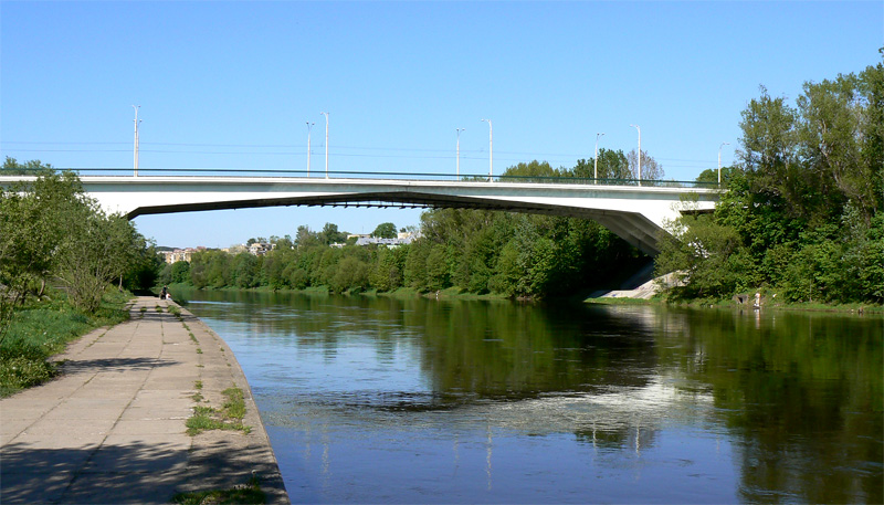 Žirmūnai bridge in Vilnius, Lithuania.